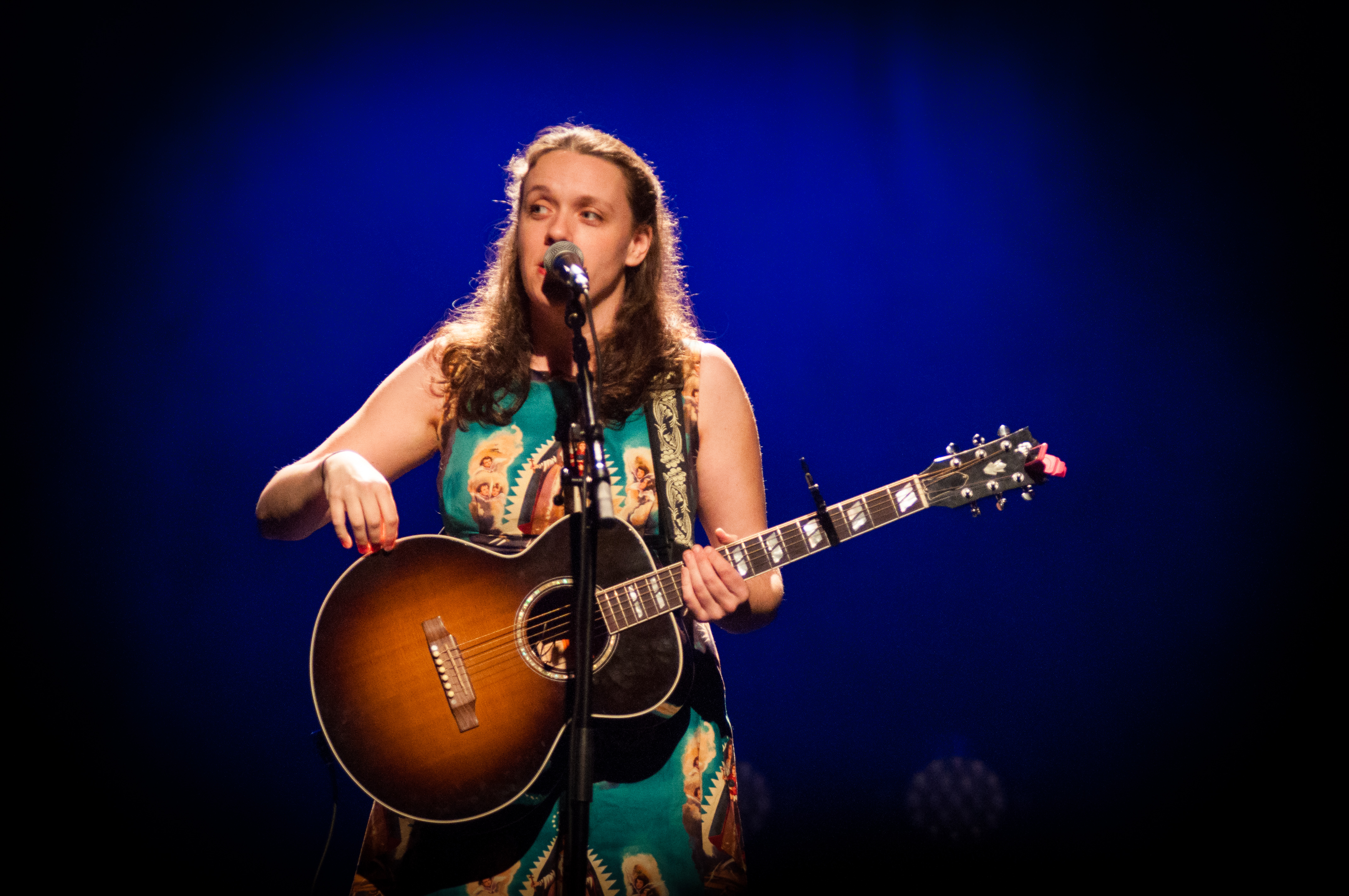 Lucy Wainwright Roche performing at Kulttuuritalo in Helsinki Finland.